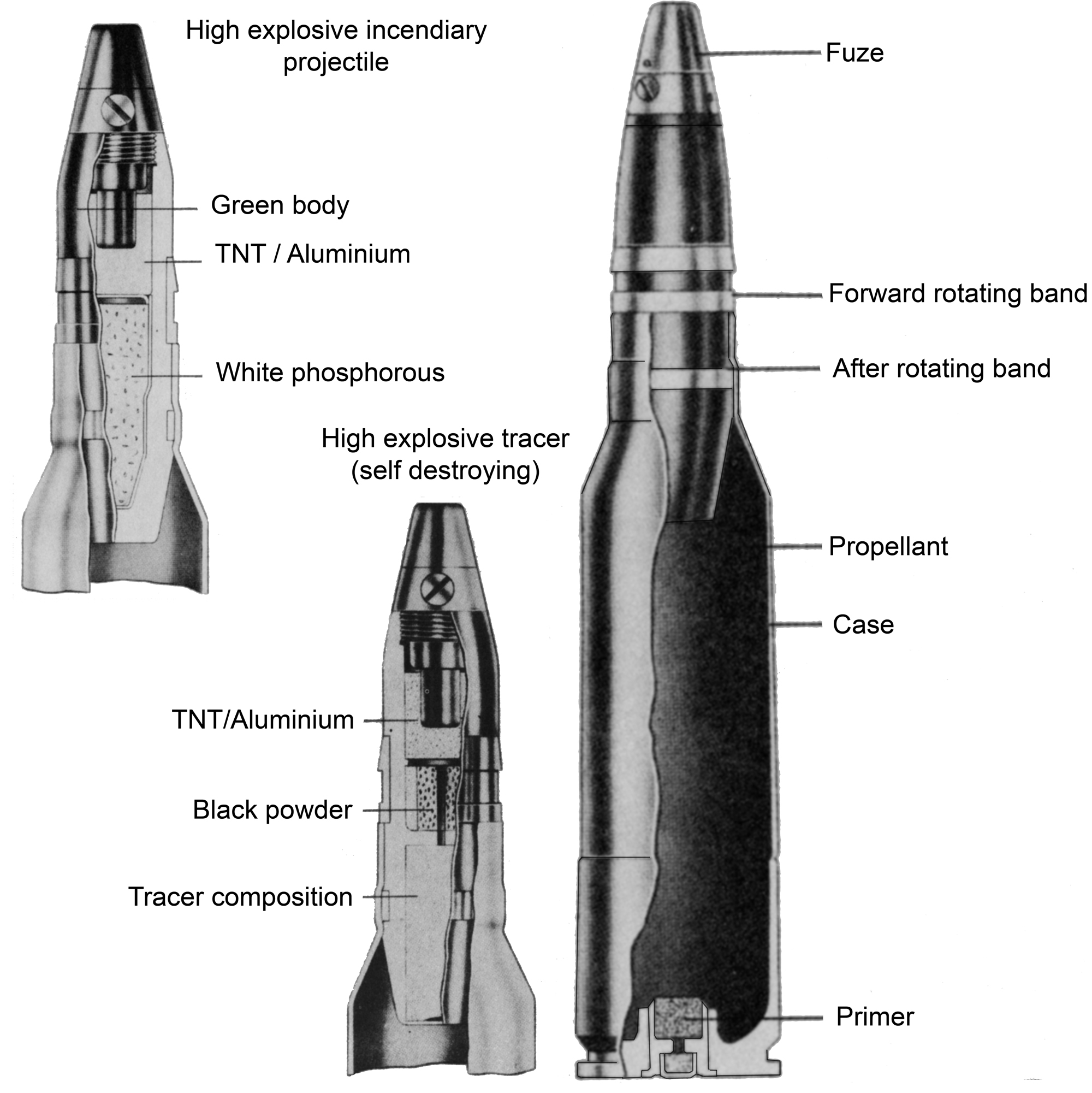 Diagrams of the configuration of Japanese 25 x 163 mm ammunition as used by the Type 96 25 mm anti-aircraft gun.